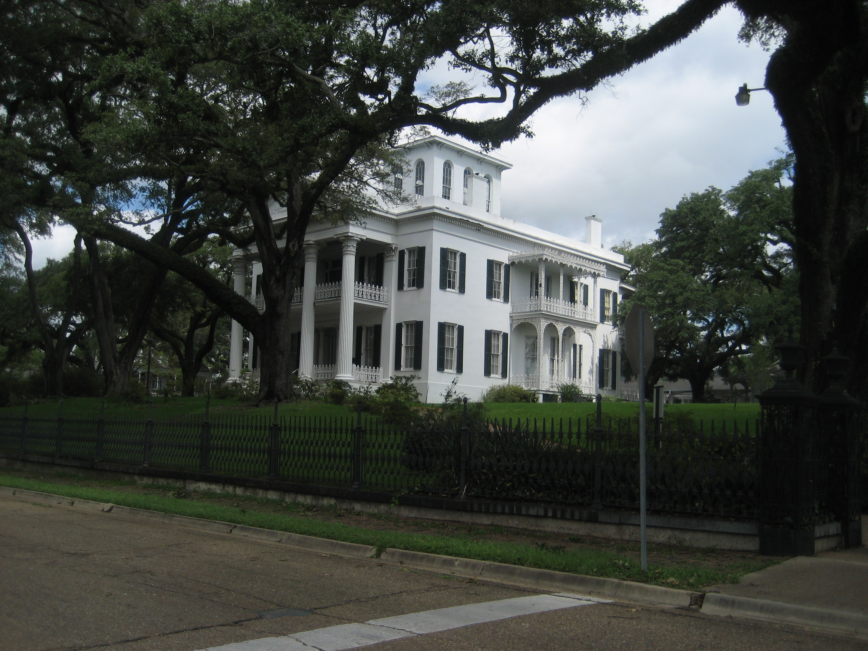 Residential architecture, old section of Natchez, Mississippi.